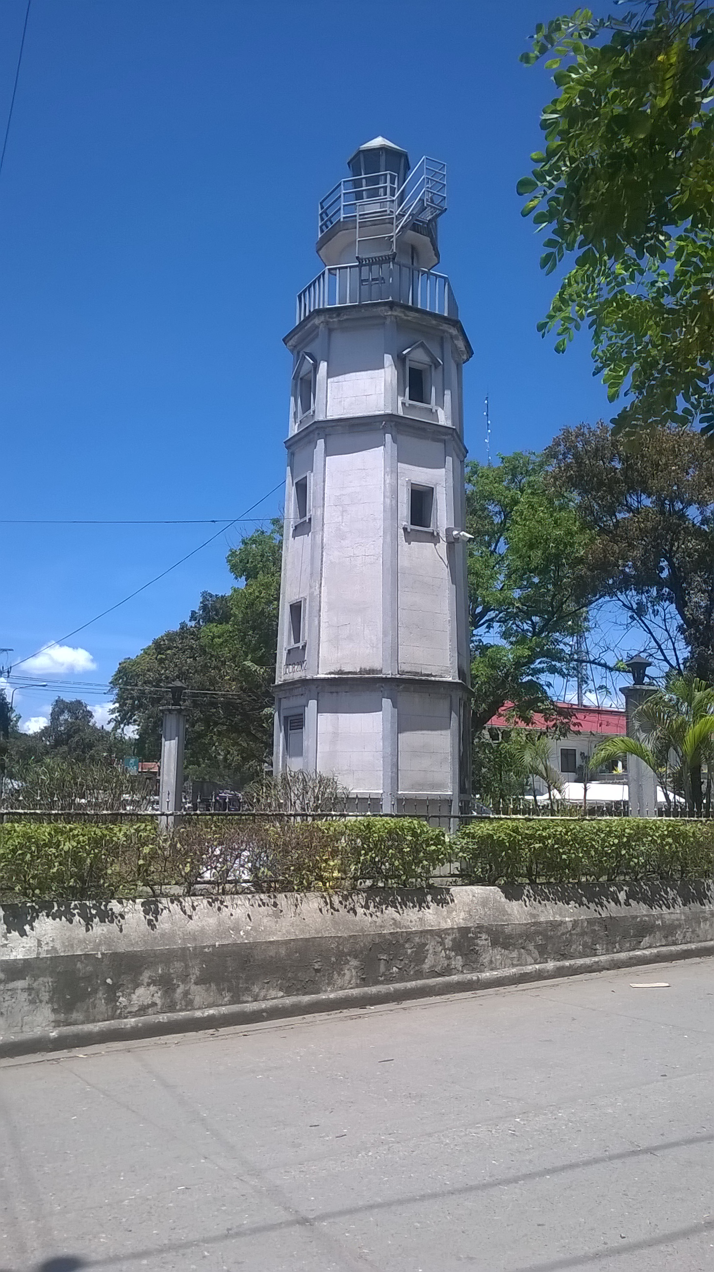 A smaller replica of the Bagacay Point Lighthouse in downtown Liloan, Cebu, about 3 kilometers away from the actual lighthouse.